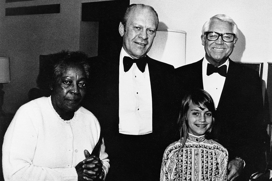 Jennifer and Cary Grant, Gerald Ford, maid Willie, Century Plaza Hotel - President's Suite